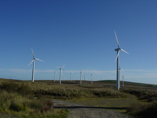 Wind Farm Stack's Mountains The wind farm in the Stack's Mountains dominates the skyline over much of north Kerry and can be reached by taking the minor road between Crusline and Ballincollig Hill.